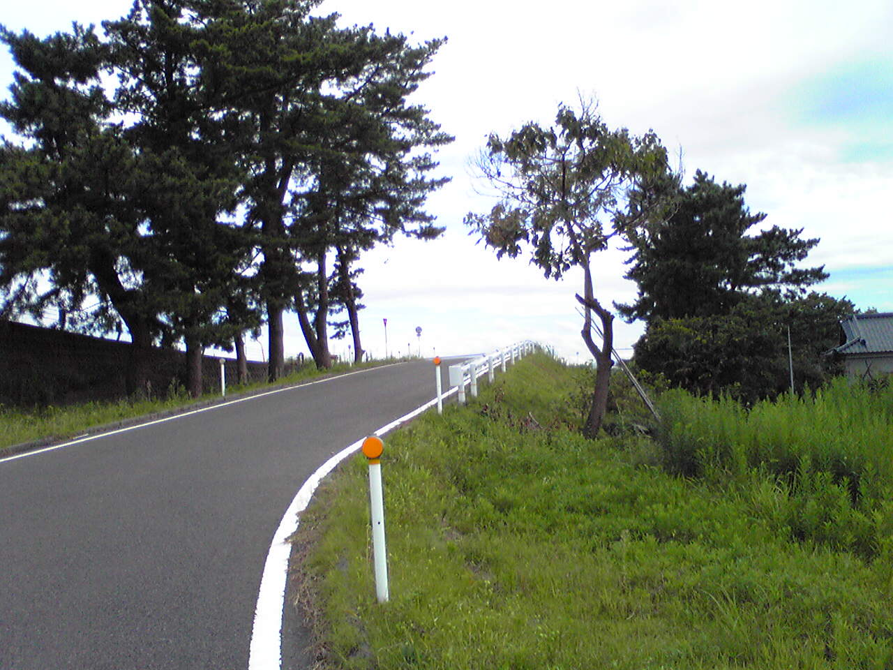 The remains of Nanaho Station, Niigata Kotsu Railway which became the abolished line on April 5, 1999. This station became the abandoned station on April 5, 1999.